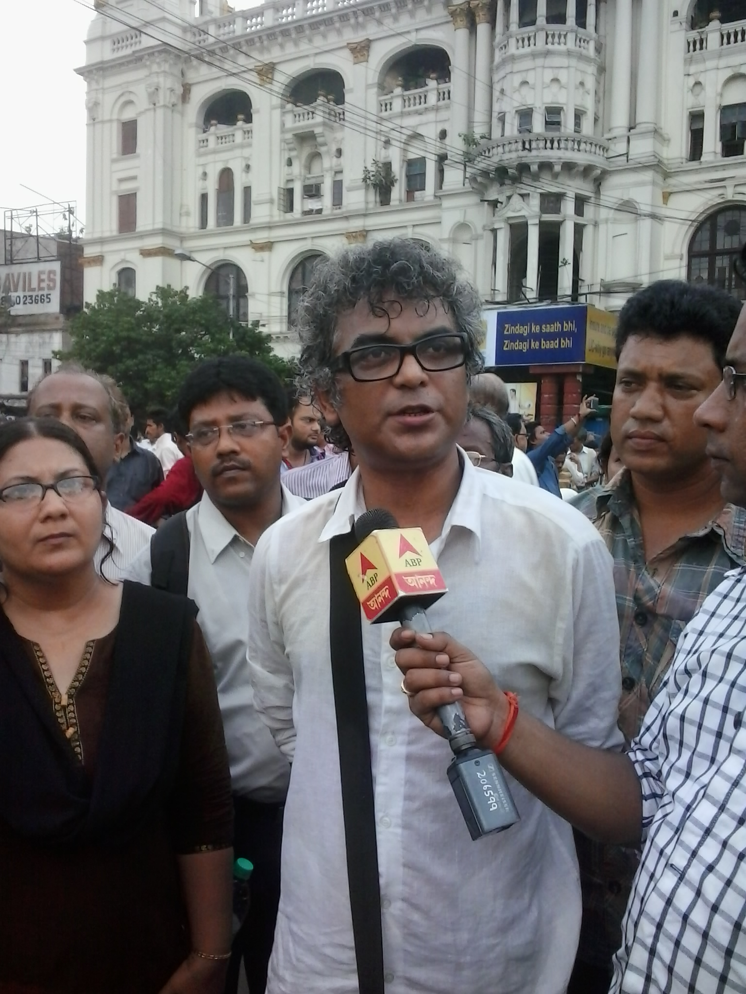 A rally of intellectuals in Kolkata, against heinous murder at Kamduni